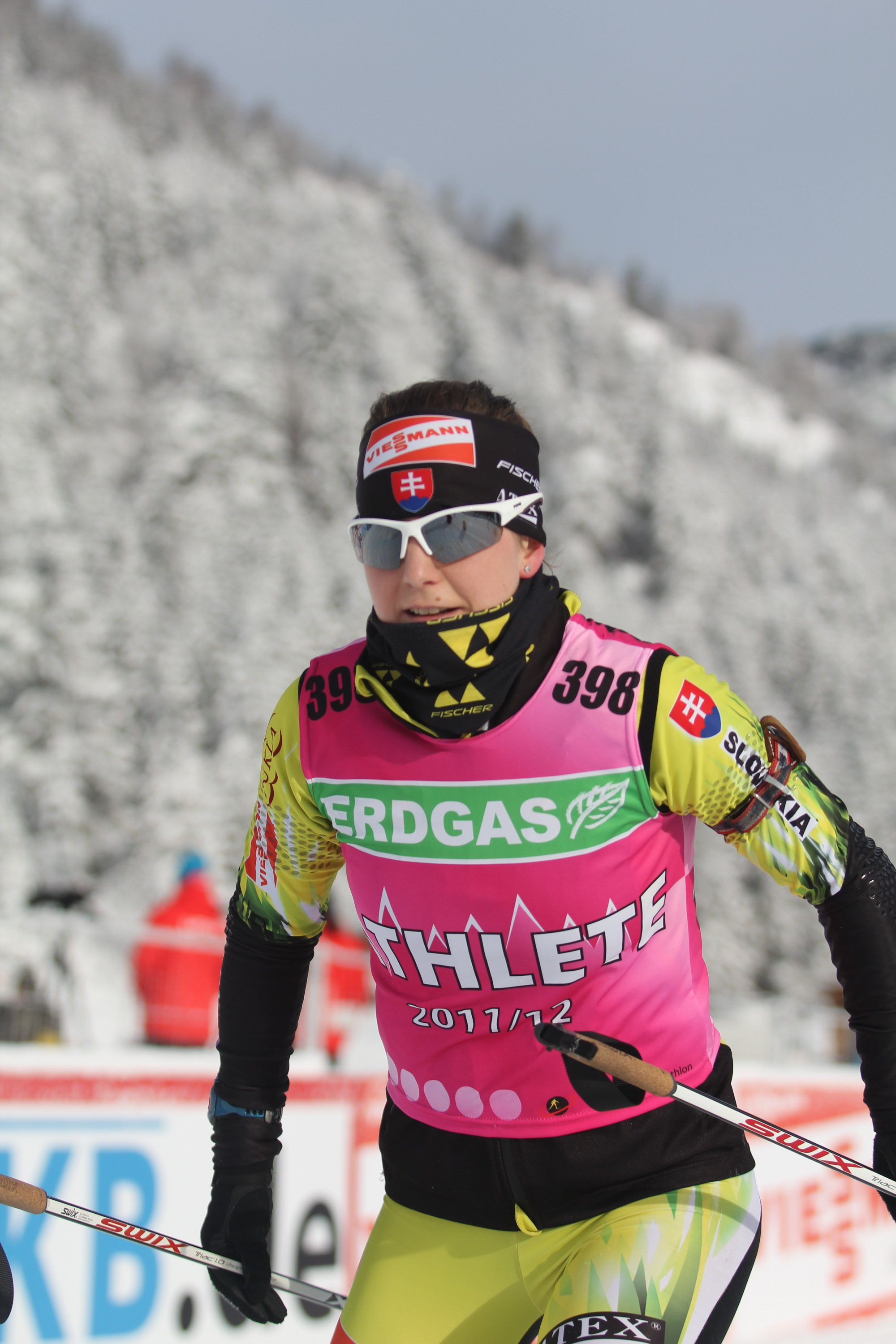 Martina Chrapánová at biathlon worldcup 2011 in Hochfilzen